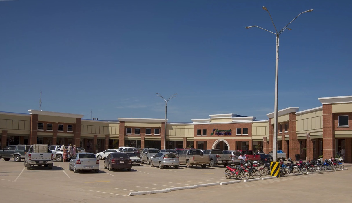 A supermarket in Filadelfia, Paraguay